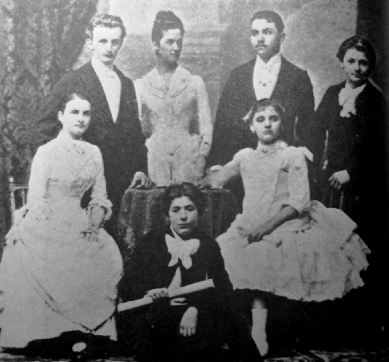 Paris Conservatory Premier Prix winners 1887